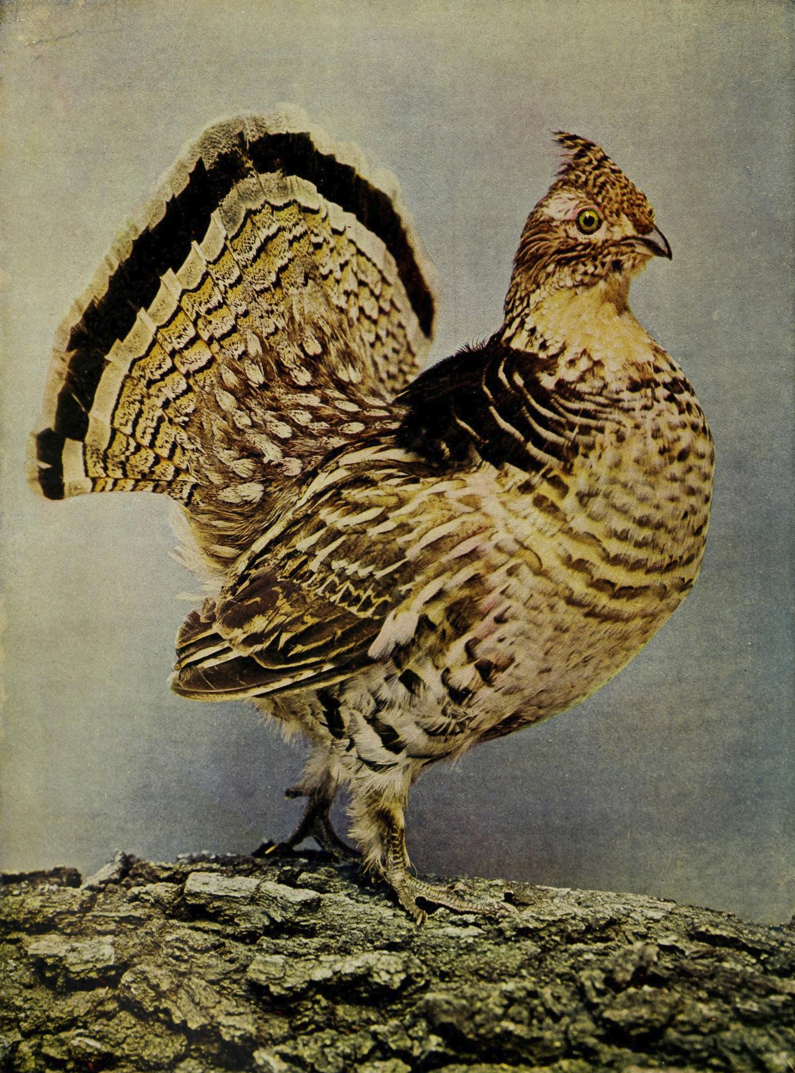 Bonasa umbellus (Ruffed Grouse)